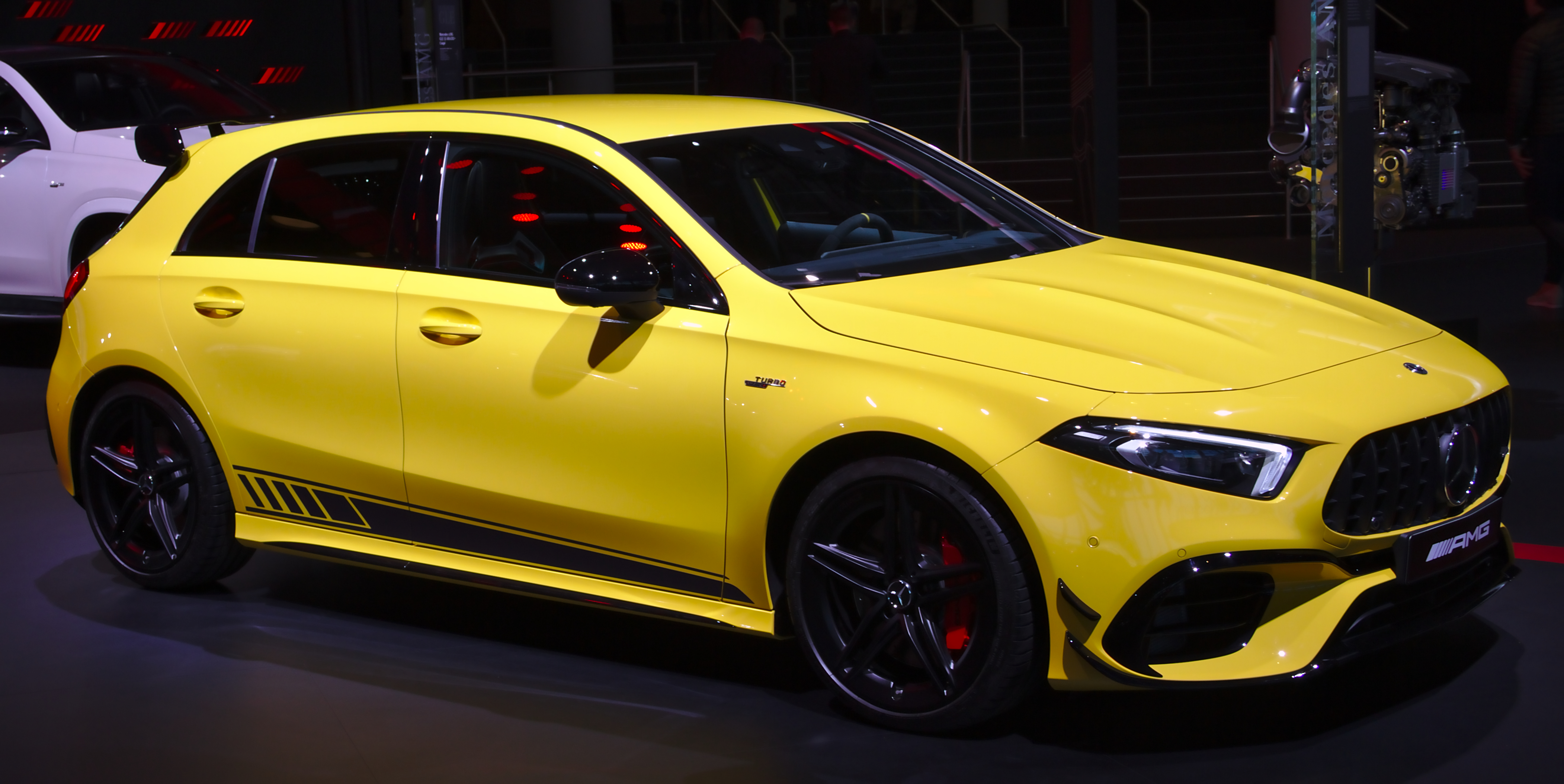 Mercedes-AMG_A_45_S_4MATIC+_(W177) at IAA 2019